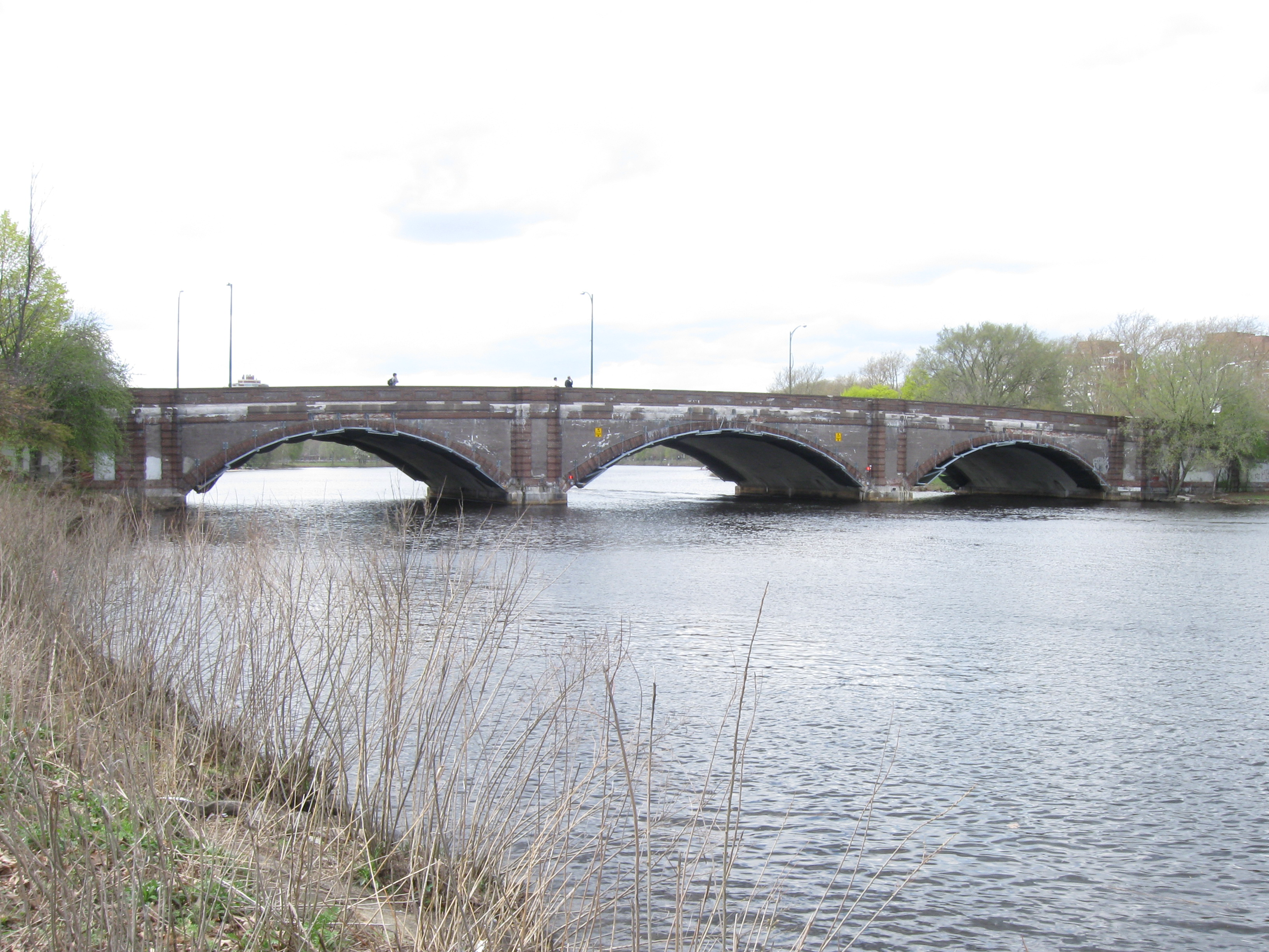 The Anderson Memorial Bridge in Cambridge, Massachusetts and Allston, Boston, Massachusetts in April 2011.